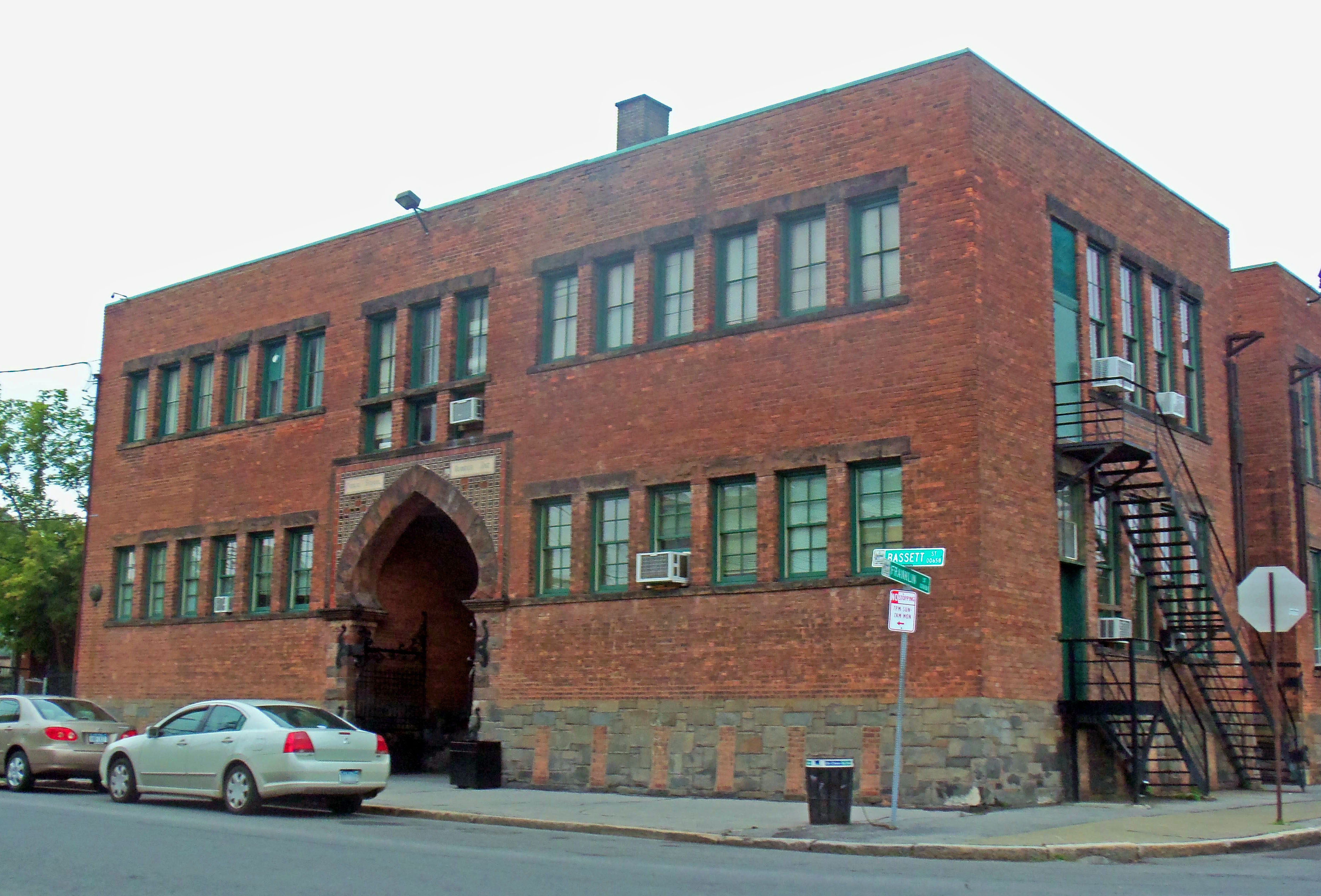 Former Public School 1 building, Albany, NY, USA; a contributing property to the South End–Groesbeckville Historic District.